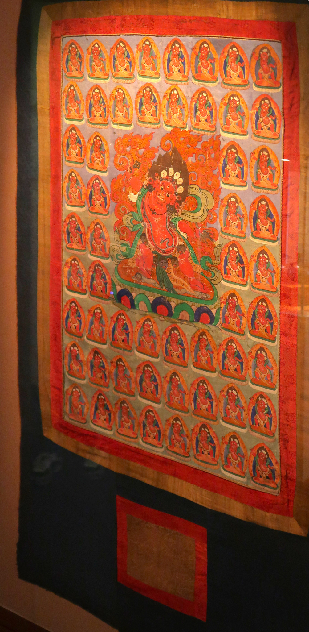 Vajrapani Thangka Painting. Painting on canvas. Mongolia. 19th c. Toulon Asian Arts Museum.